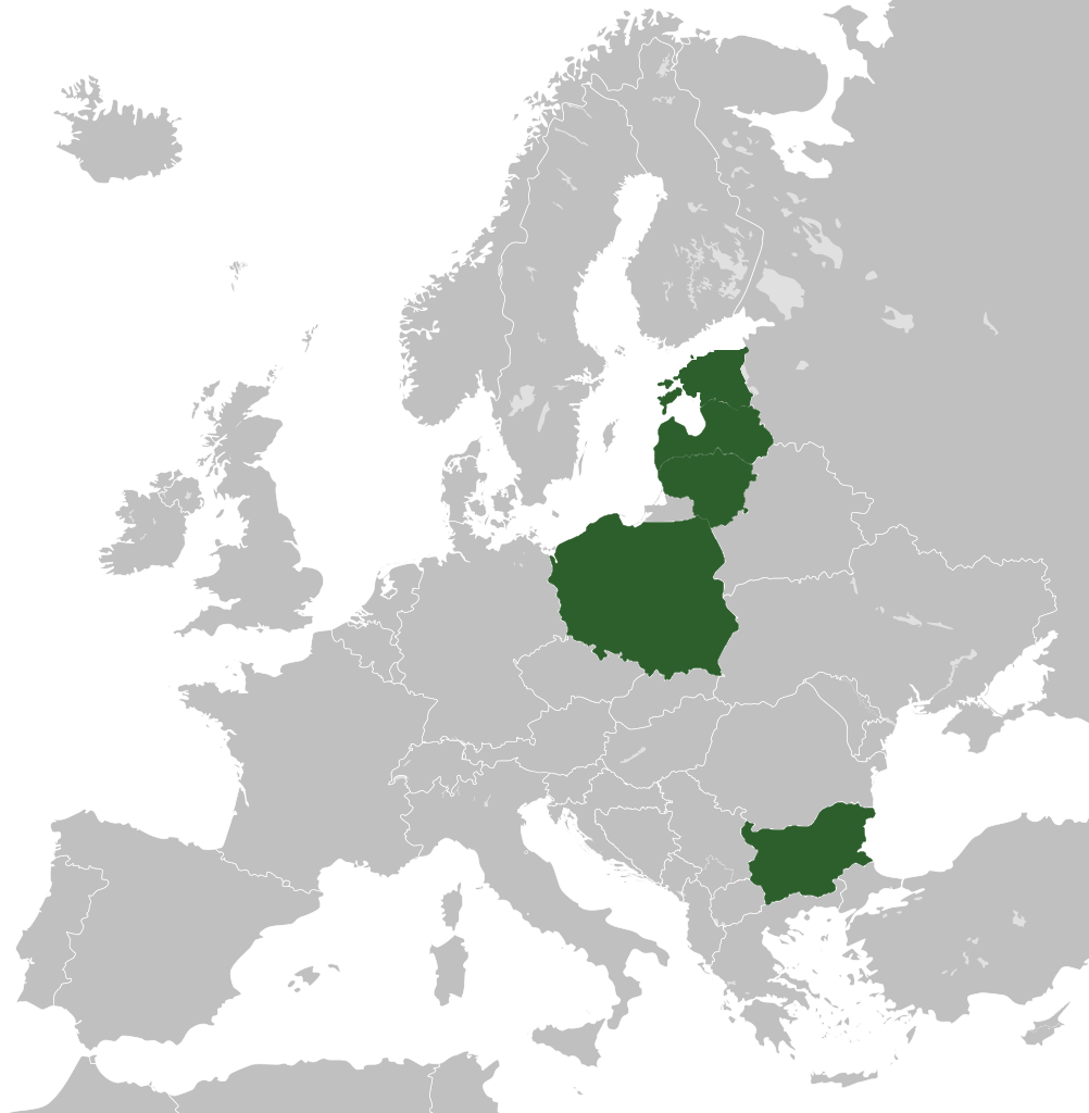 s in Europe